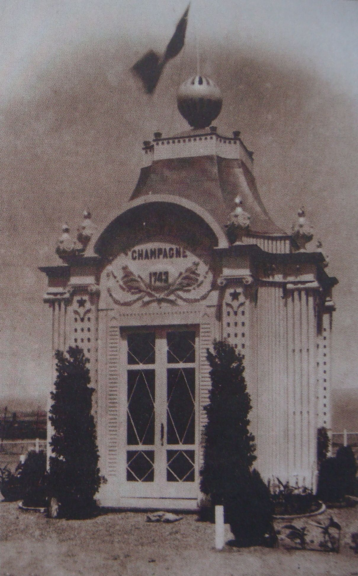 Pavilion of Moet & Chandon at Odessa Art & Industry Exposition, 1910.